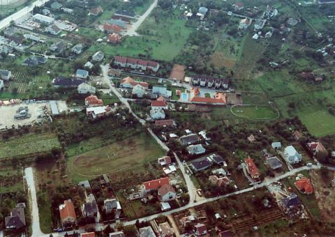 Fertőhomok, Hungary, aerialphotography